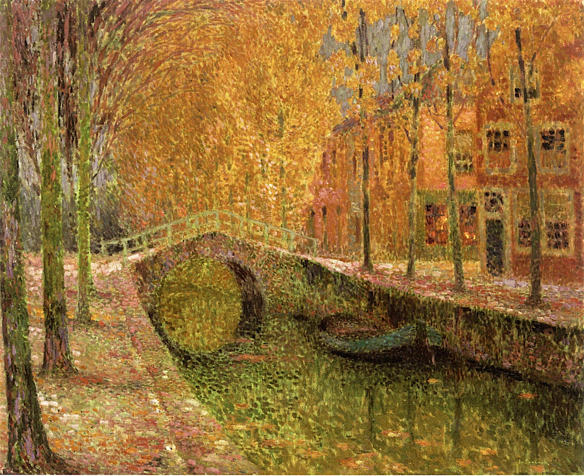 Kanaal te Delft